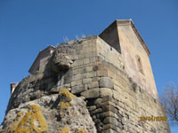 It is a Nice Church to visit at the Region of Samtskhe-Javakheti Hiking around Tsunda Church psity.ge